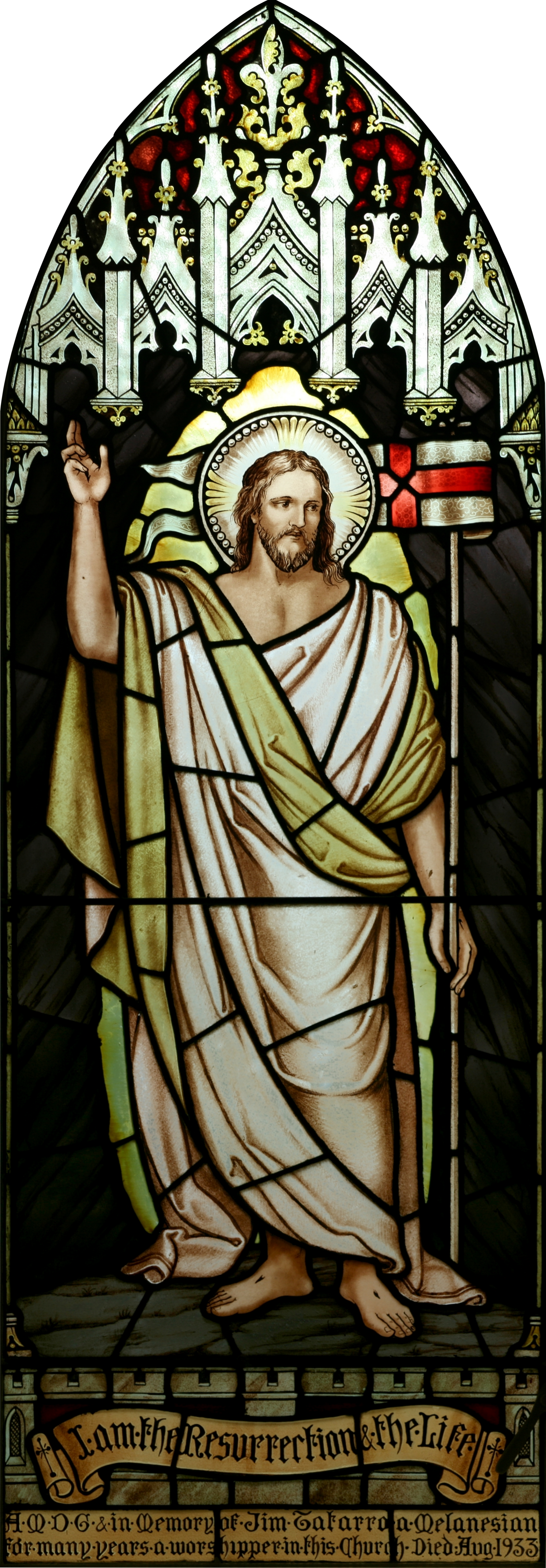 Stained glass panel in the chancel of St. John's Anglican Church, Ashfield, New South Wales (NSW). This scene illustrates Jesus' claim "I am the Resurrection and the Life " (John 11:25). The inscription on this memorial window reads "A M D G & In memory of Jim Tatarro a Melanesian for many years a worshipper in this Church. Died Aug 1933". The colony of Melanesians had formerly been workers in the Queensland cane fields. This window was unveiled at a festival in June 1934 [1].